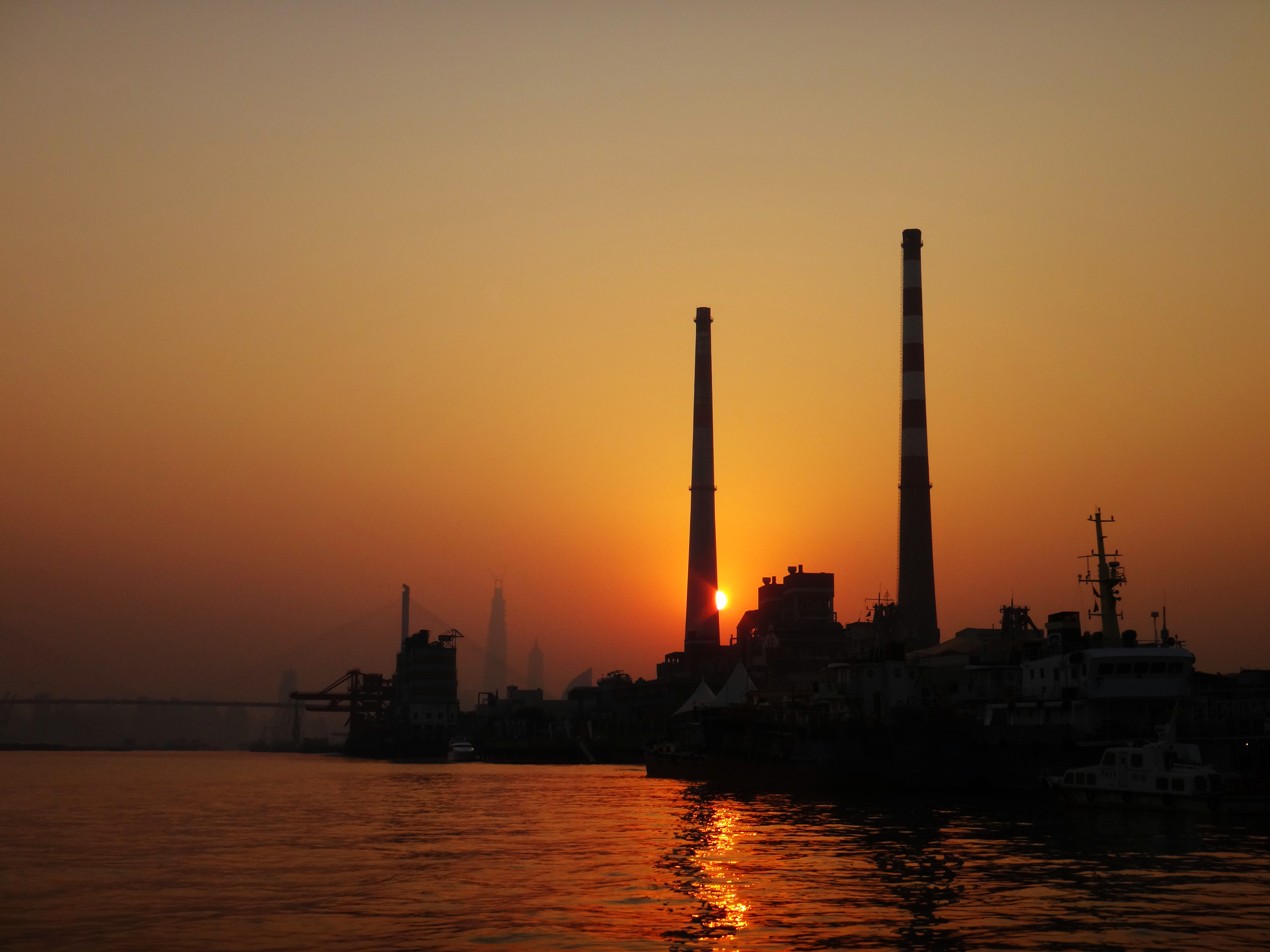 A photograph depicting the layout of Yangshupu Power Plant during sunset which is a power station shut in 2010 for carbon dioxide reduction. The plant will have a transformation to an exhibition facility showing the native culture of Shanghai. Photo was taken on Ferry Line Jinqiao Rd. to Dinghai Rd., Shanghai, China.